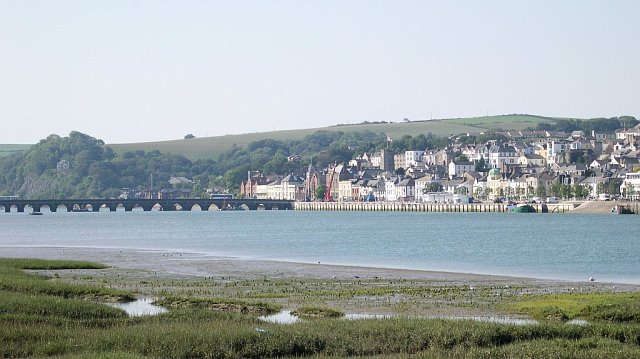 Bideford and the Longbridge